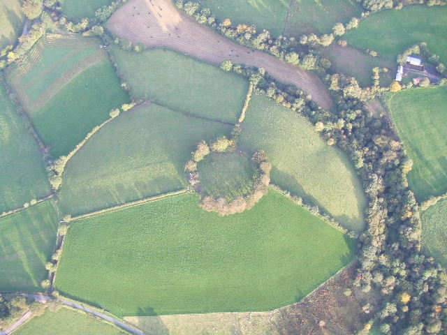 Rath. Ancient Rath on a hilltop near Clanabogan, Co. Tyrone.